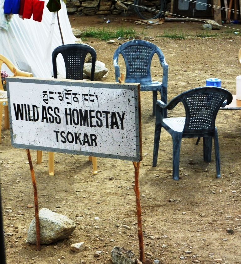 I took this photo on a trip through Ladakh and neighbouring regions in 2010